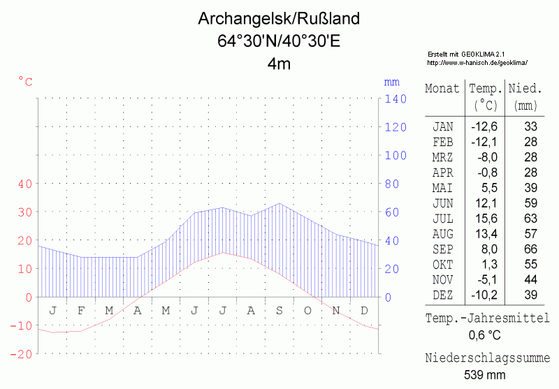 climate chart in the format by Walther and Lieth, metric, °Celsisus and millimeters, made with Geoklima 2.1